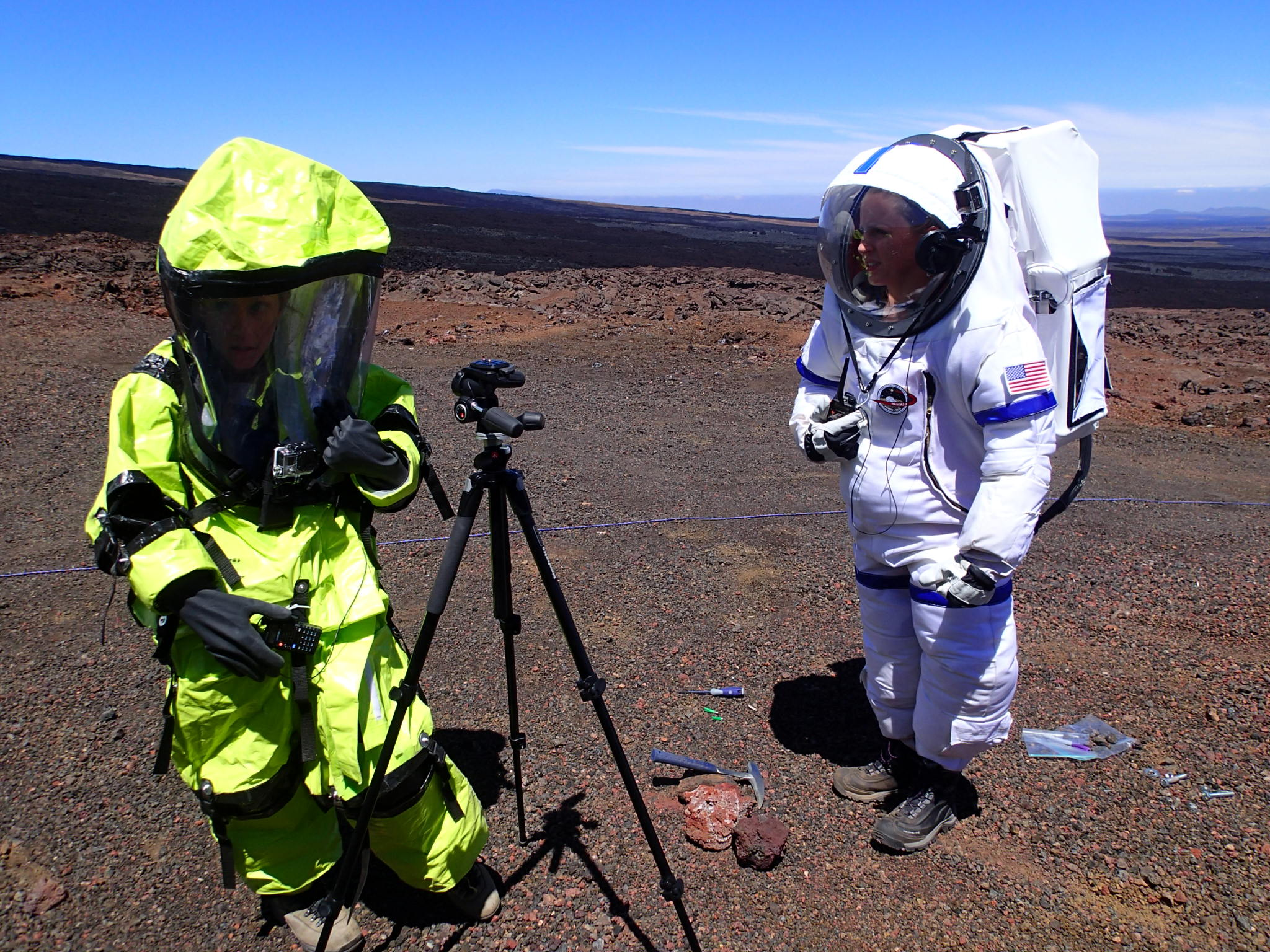 Testing analogue suits, hazmat and MX-C, near Mauna Loa, Tiffany Swarmer and Annie Caraccio for NASA